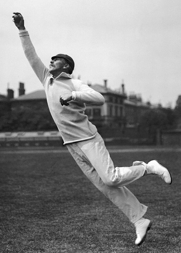 John Tunnicliffe, Yorkshire, circa 1905.